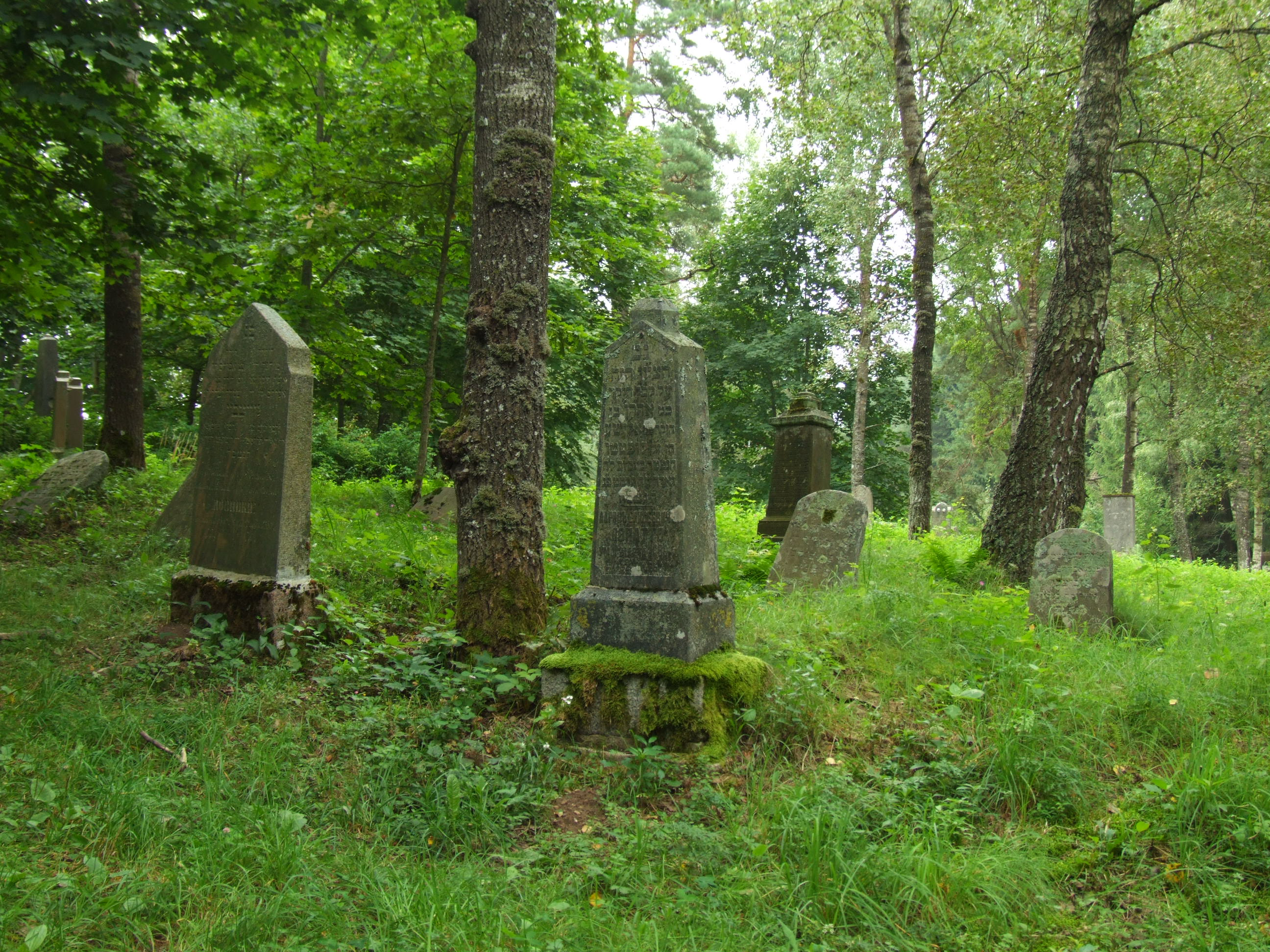 Karaite cemetery in Trakai (Troki)